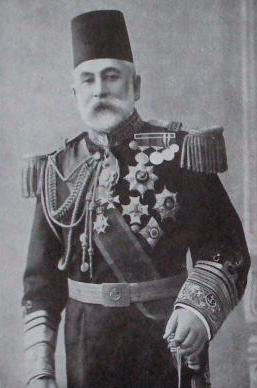 Depicted person: Henry Felix Woods – British admiral in the Ottoman Navy